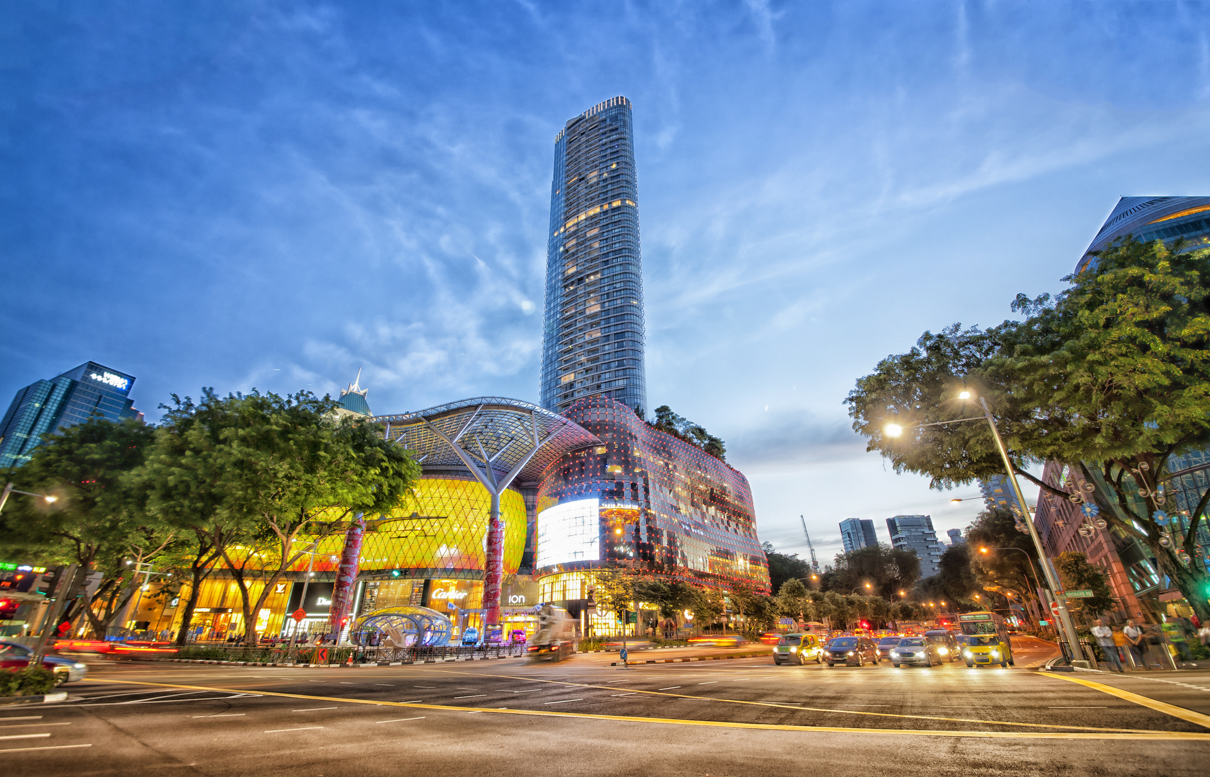 ion orchard road singapore 2012 quasi hdr